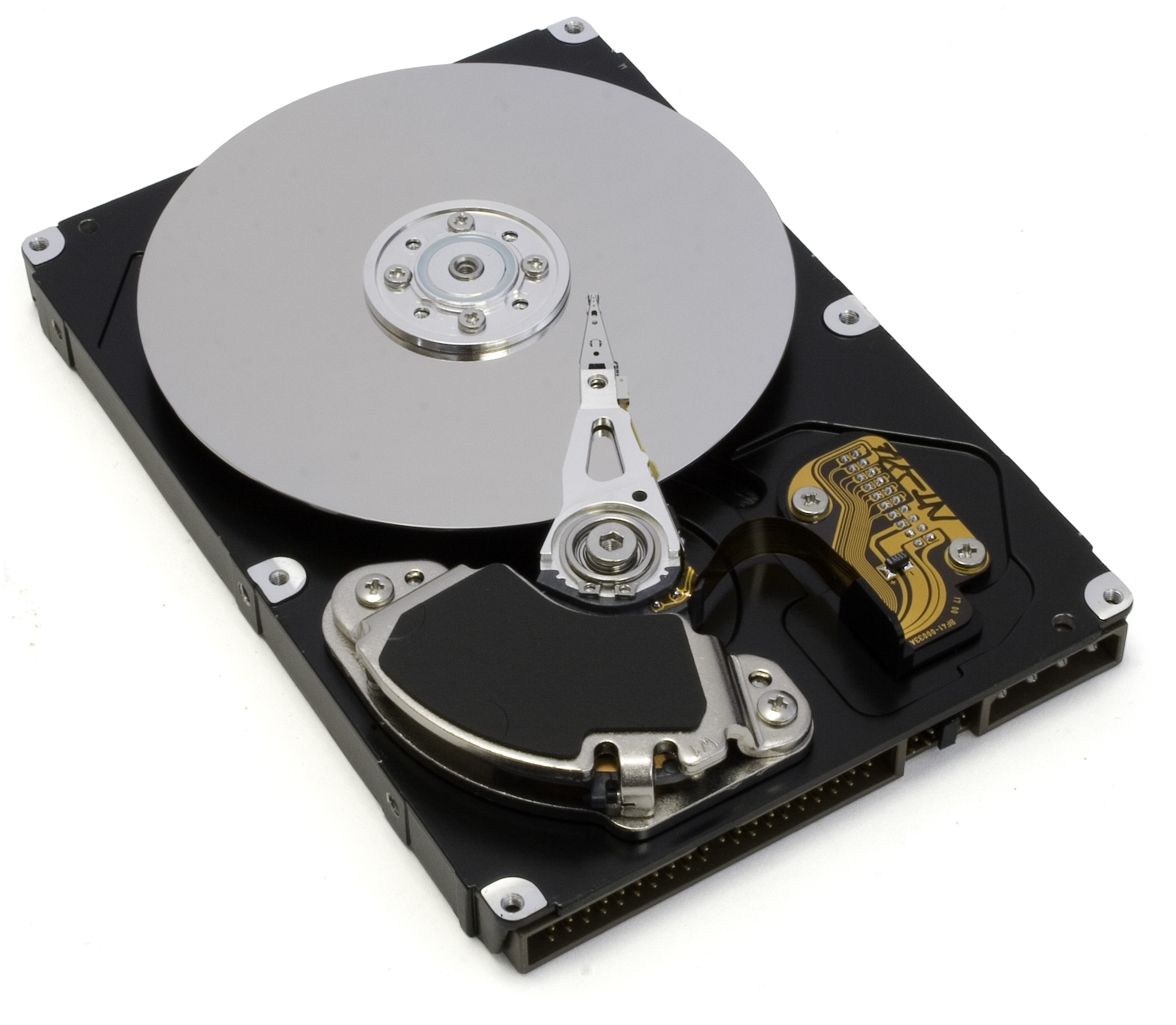 An IDE hard drive with it's upper case removed. The platter and read/write head are visible.